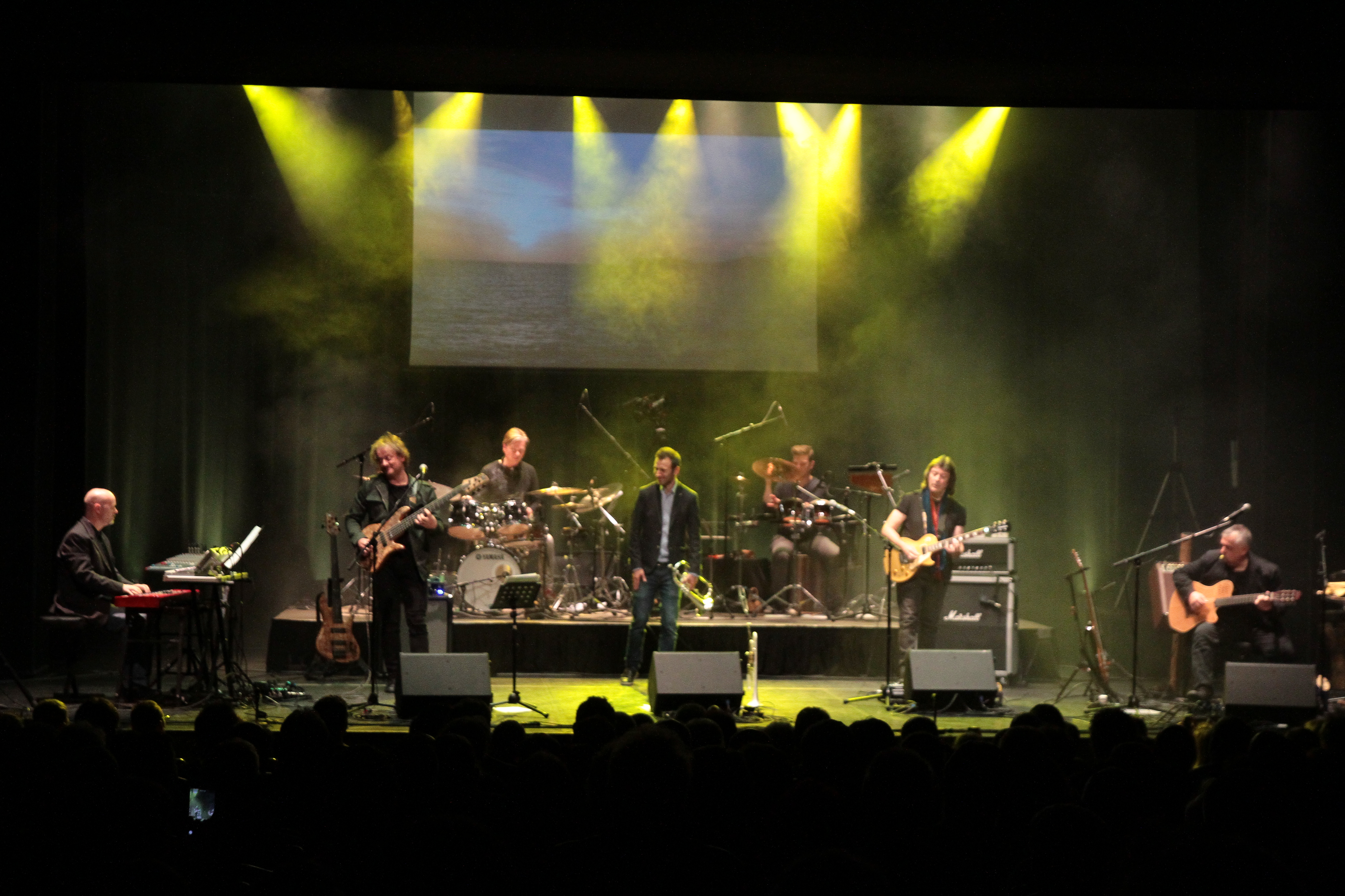 Djabe with Steve Hackett and Gulli Briem plays Life Is A Journey in Budapest, 2017